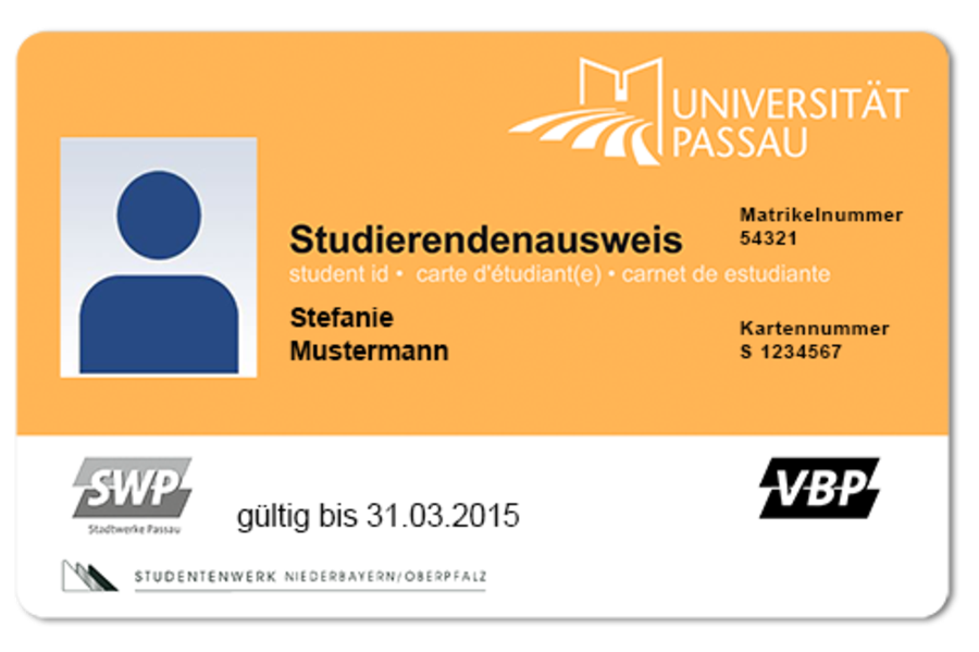 Kampusz kártya